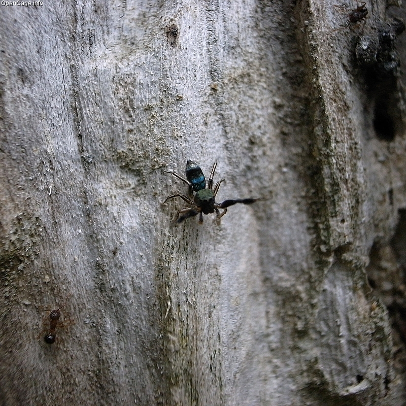 Siler cupreus raising its arms in the characteristic gesture of the genus アオオビハエトリ（青帯蝿捕蜘蛛、AOOBI-HAETORI (Jumping spider)） Siler cupreus (Simon, 1888) 動物界(Animalia) 節足動物門(Arthropoda) クモ綱(Arachnida) クモ目(Araneae) ハエトリグモ科(Salticidae) Siler属(Siler) 播磨中央公園（兵庫県加東市下滝野）にて